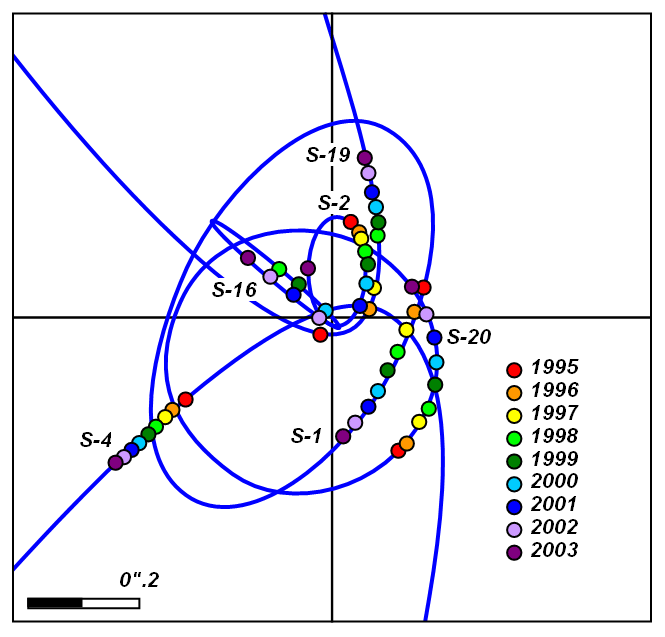 Stellar orbits near the center of the Milky Way Galaxy.